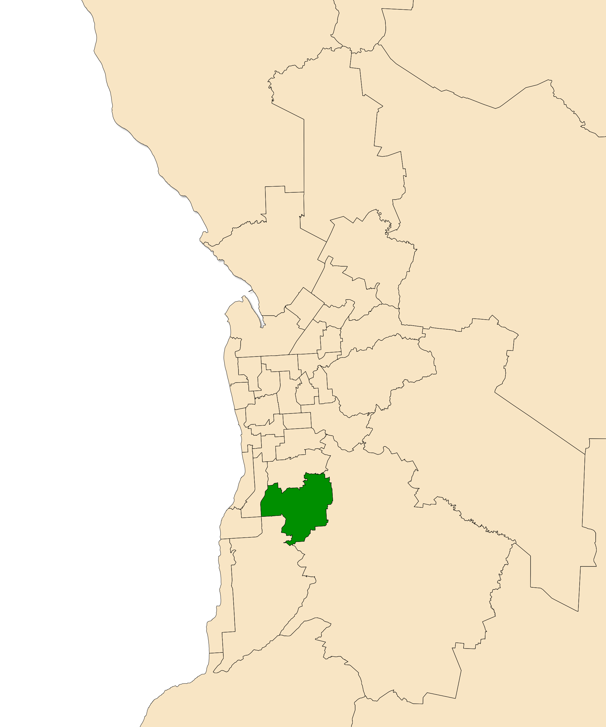 The South Australian electoral district of Fisher, shown dark green in the Greater Adelaide area. Map derived from data at South Australia Department of Planning, Transport and Infrastructure, licensed under a Creative Commons Attribution 3.0 Australia Licence.